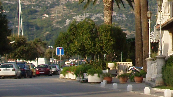 Example of FOV in 16:9 with HOR+ scaling